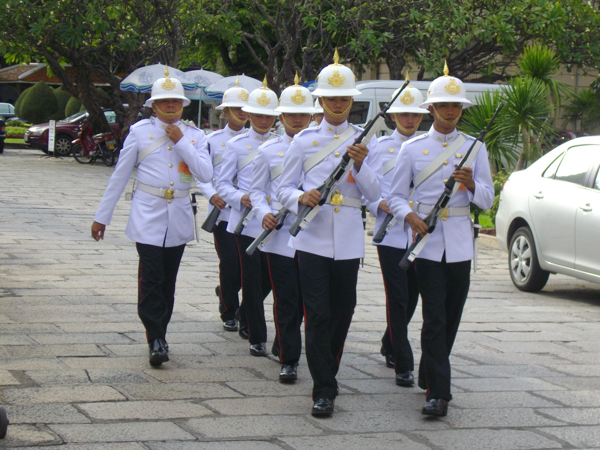 The Thai Royal Guards, hold the M16, from 1st Infantry Regimental, King's own bodyguard march to change guard in the Grand Palace, Bangkok, Thailand